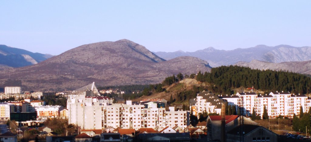 Ljubovic Hill in Podgorica.